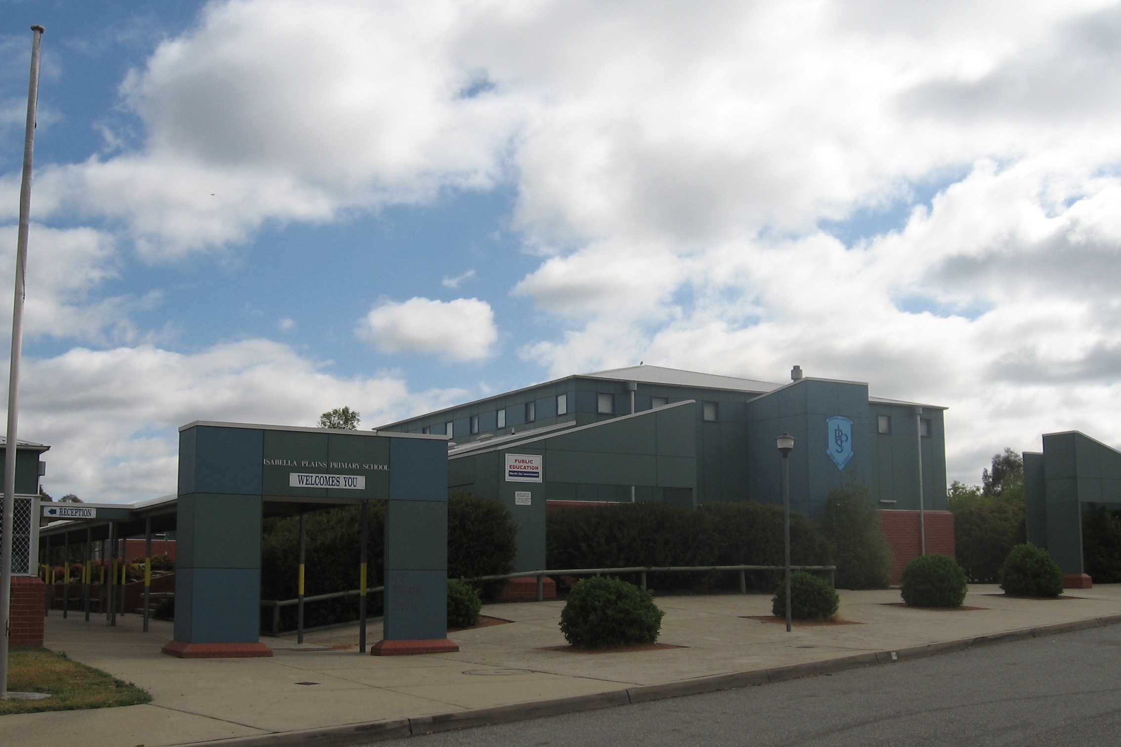 Isabella Plains Primary School. I took this photo myself